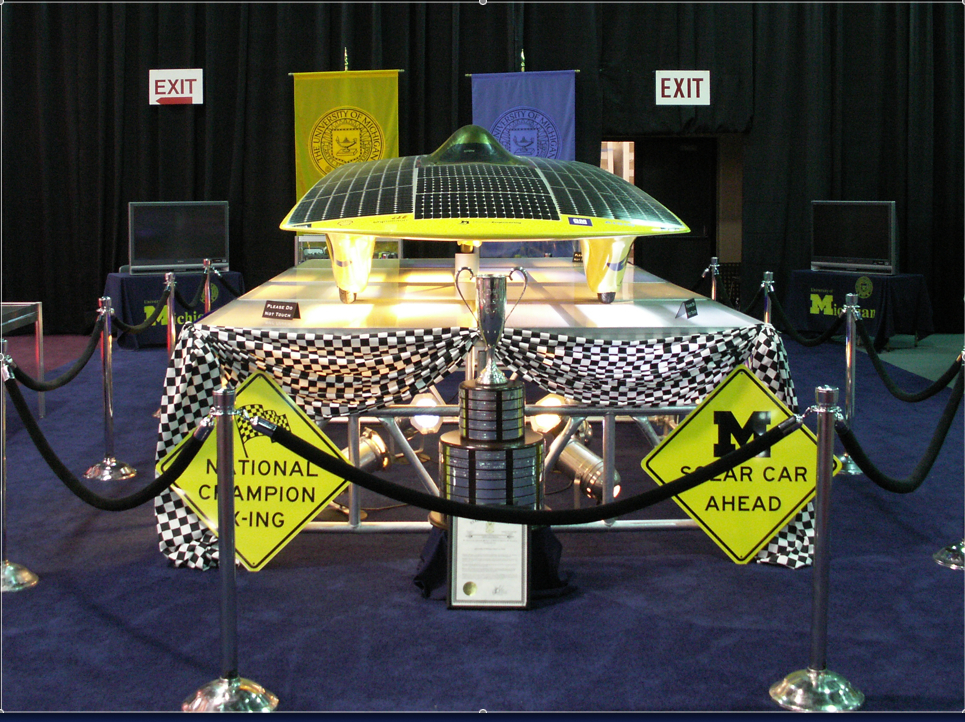 Description': University of Michigan Solar Car Momentum at the 2006 North American International Auto Show. Source: self Date: 15 Jan 2006 Author: Steven Antalics, IstvanWolf Permission: GFDL